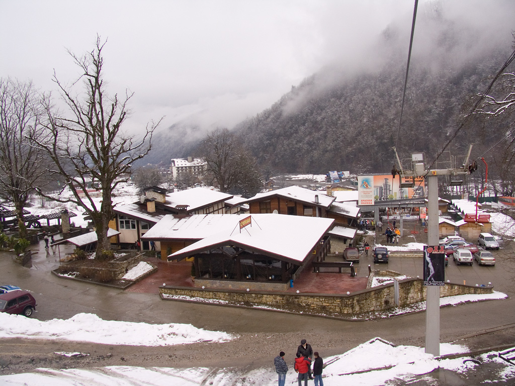 Former bottom station Alpica Service. Now doesn't exist.